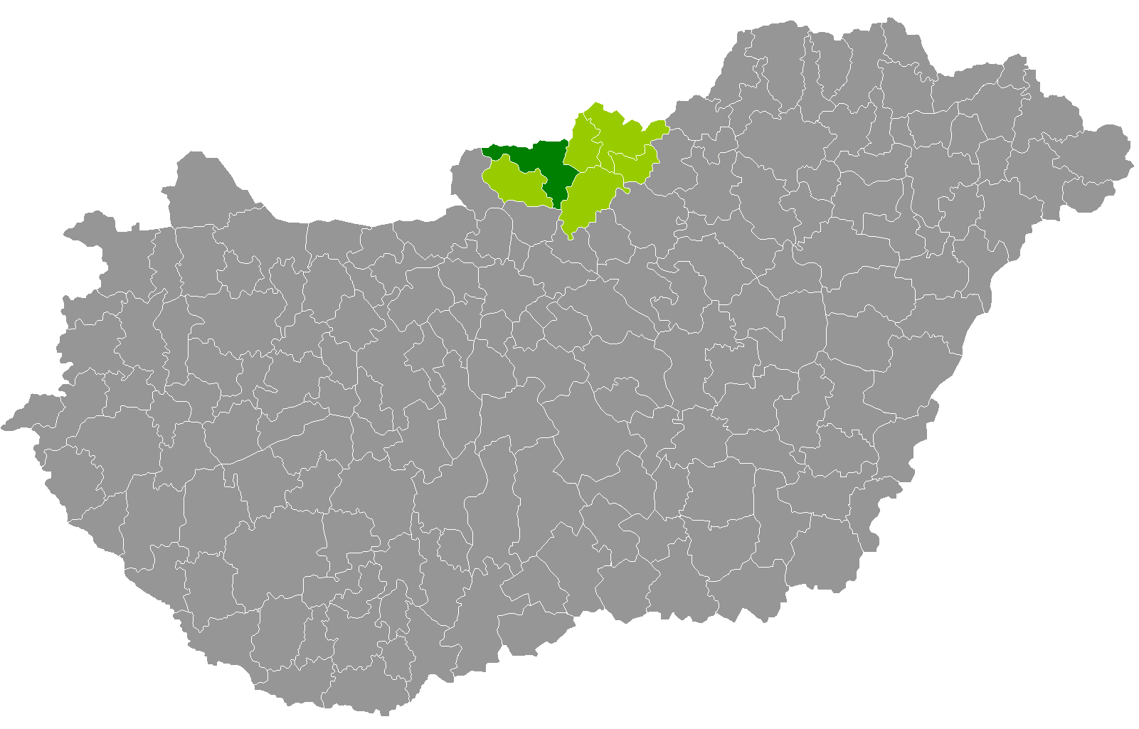 Location of Balassagyarmat District, Nógrád, Hungary